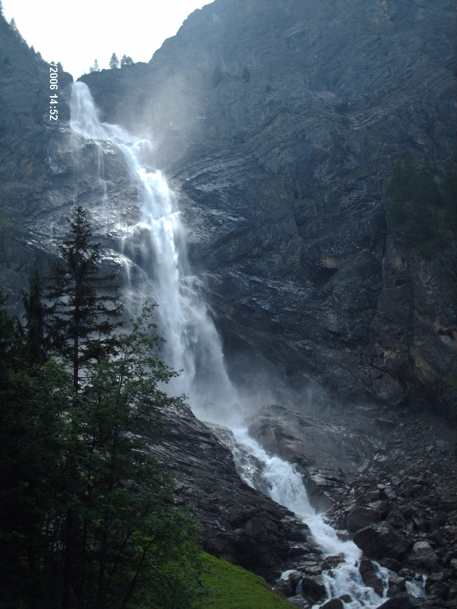 Lower Engstligen fall near Adelboden in Bernese Oberland in Switzerland. Photo taken by Irmgard on July 16, 2006 Engstligenfälle